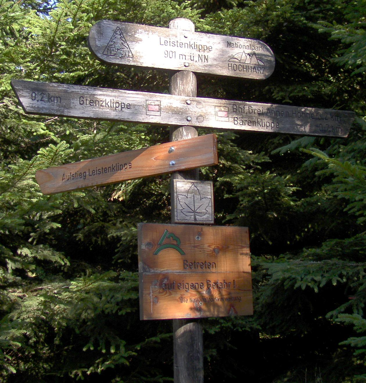 Fingerpost near „Leistenklippe“ in the Harz National Park in Saxony-Anhalt, Germany